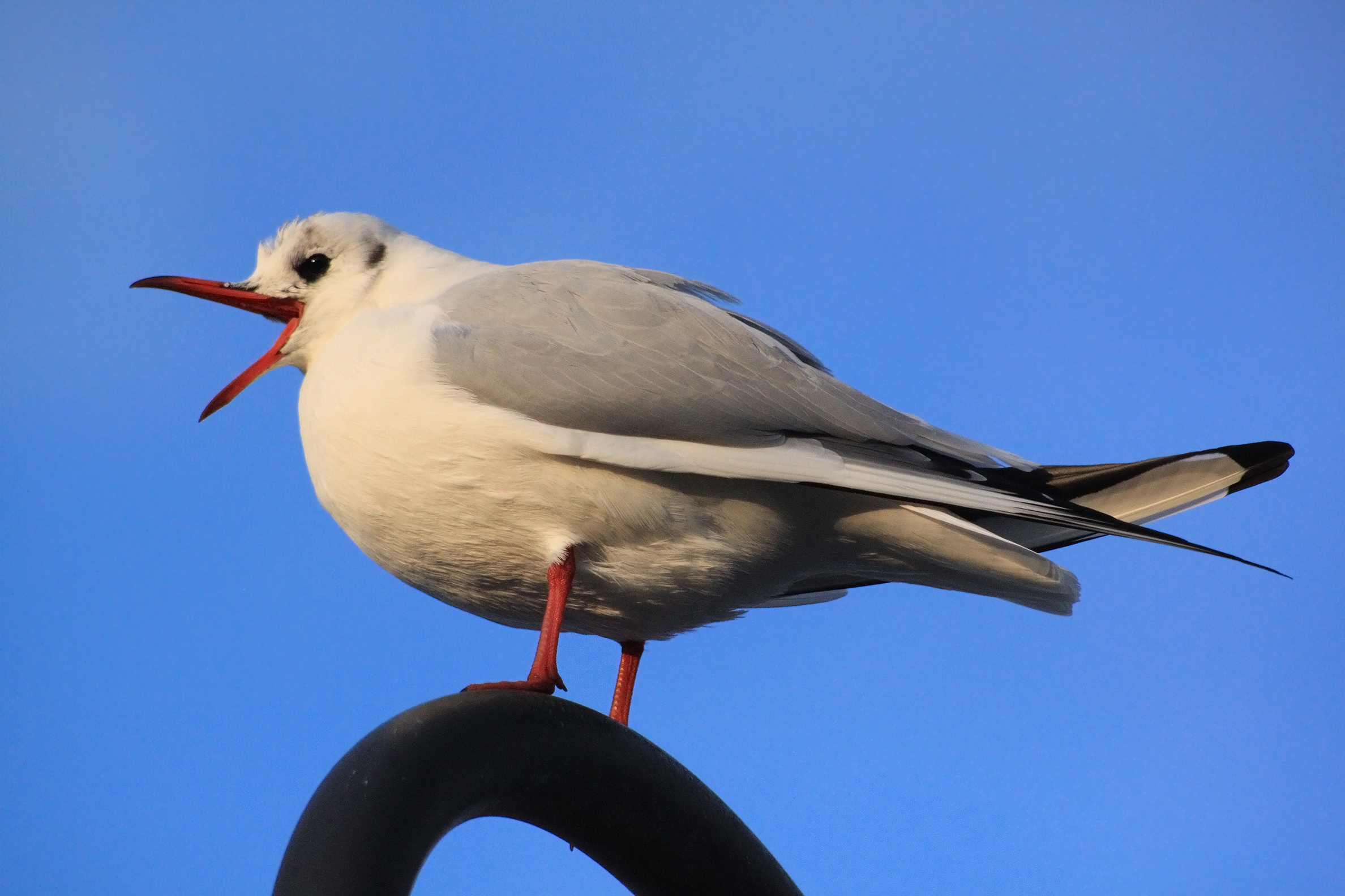 A side view of a black-headed gull with his beak open in winter plumage on a bollard(Larus ridibundus).